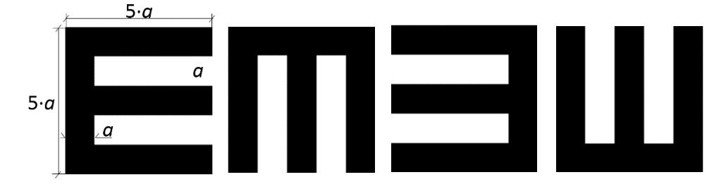 four tumbling E symbols